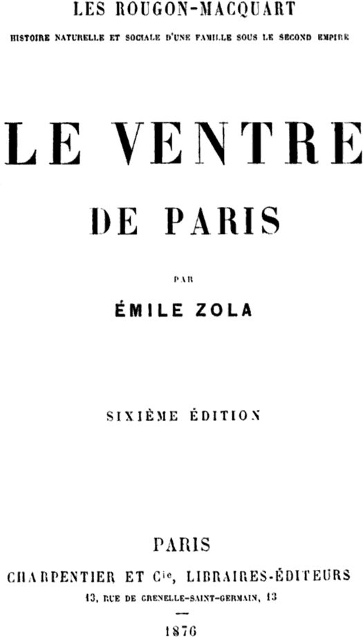 The Belly of Paris (1873) by Émile Zola (1840-1902)